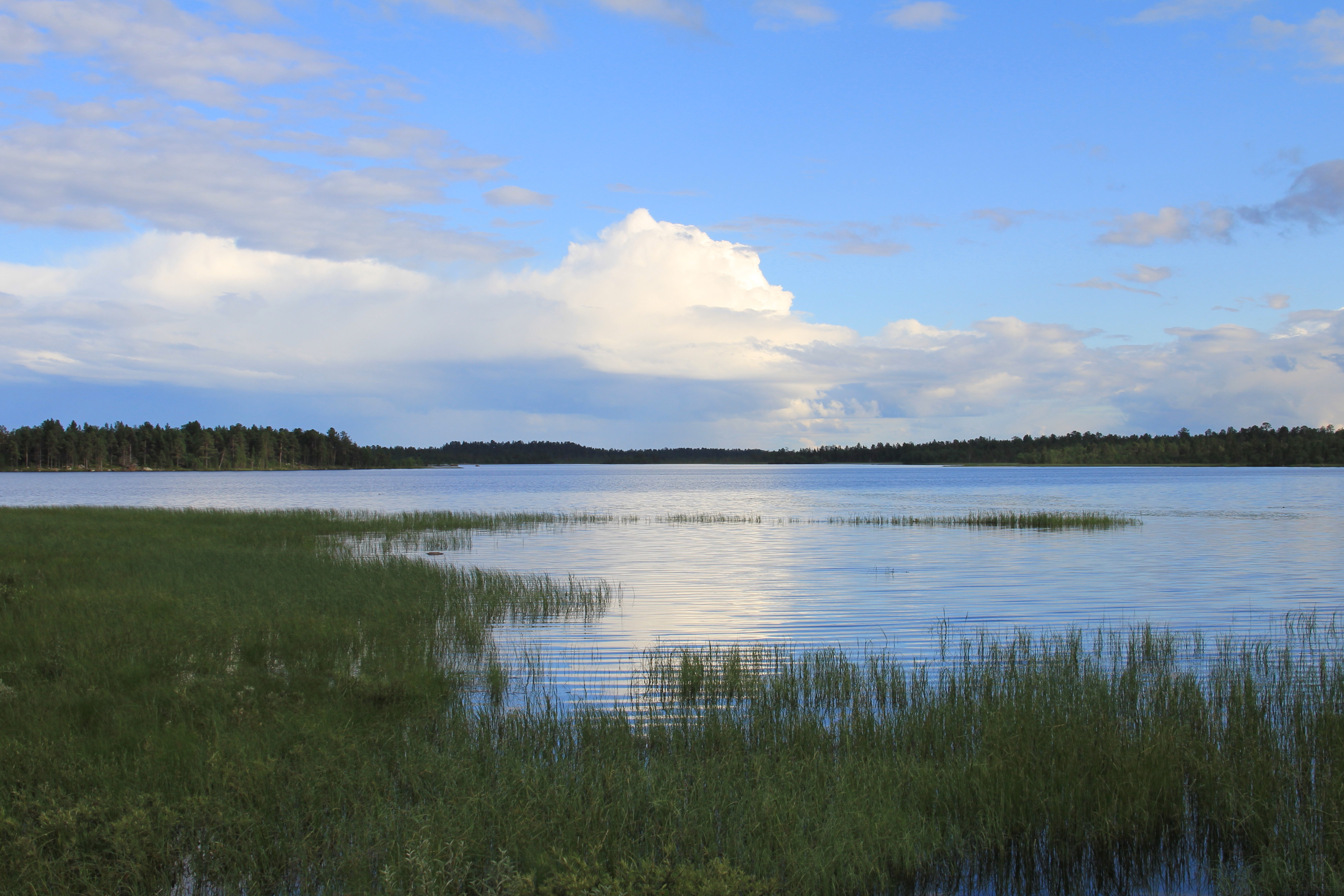 Ala-Sieksijärvi (lake), Inari, Finland